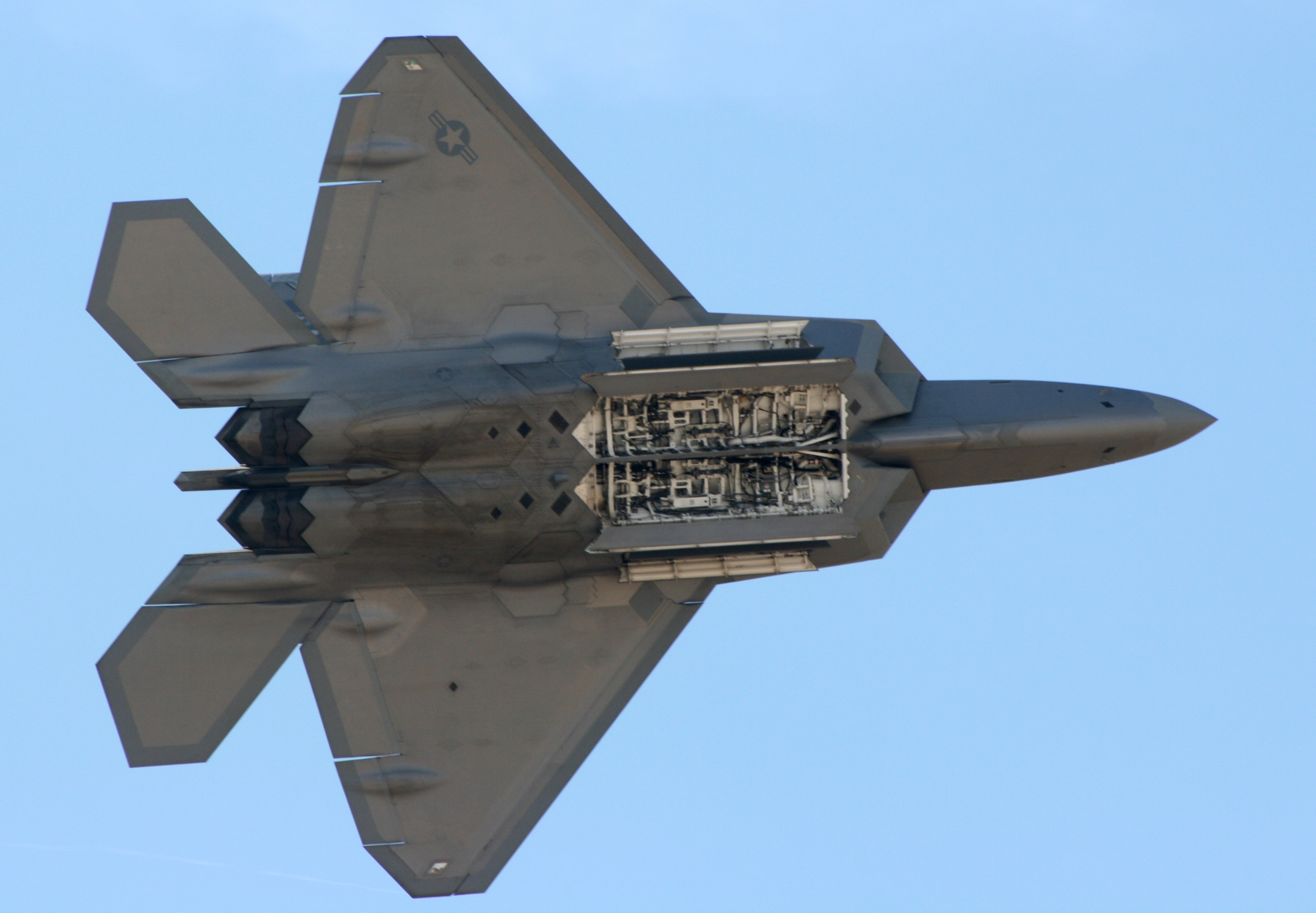 A Picture of the internal Weapons Bay of a F-22 raptor, while demonstrating at a Blue Angels Airshow in San Antonio, Texas